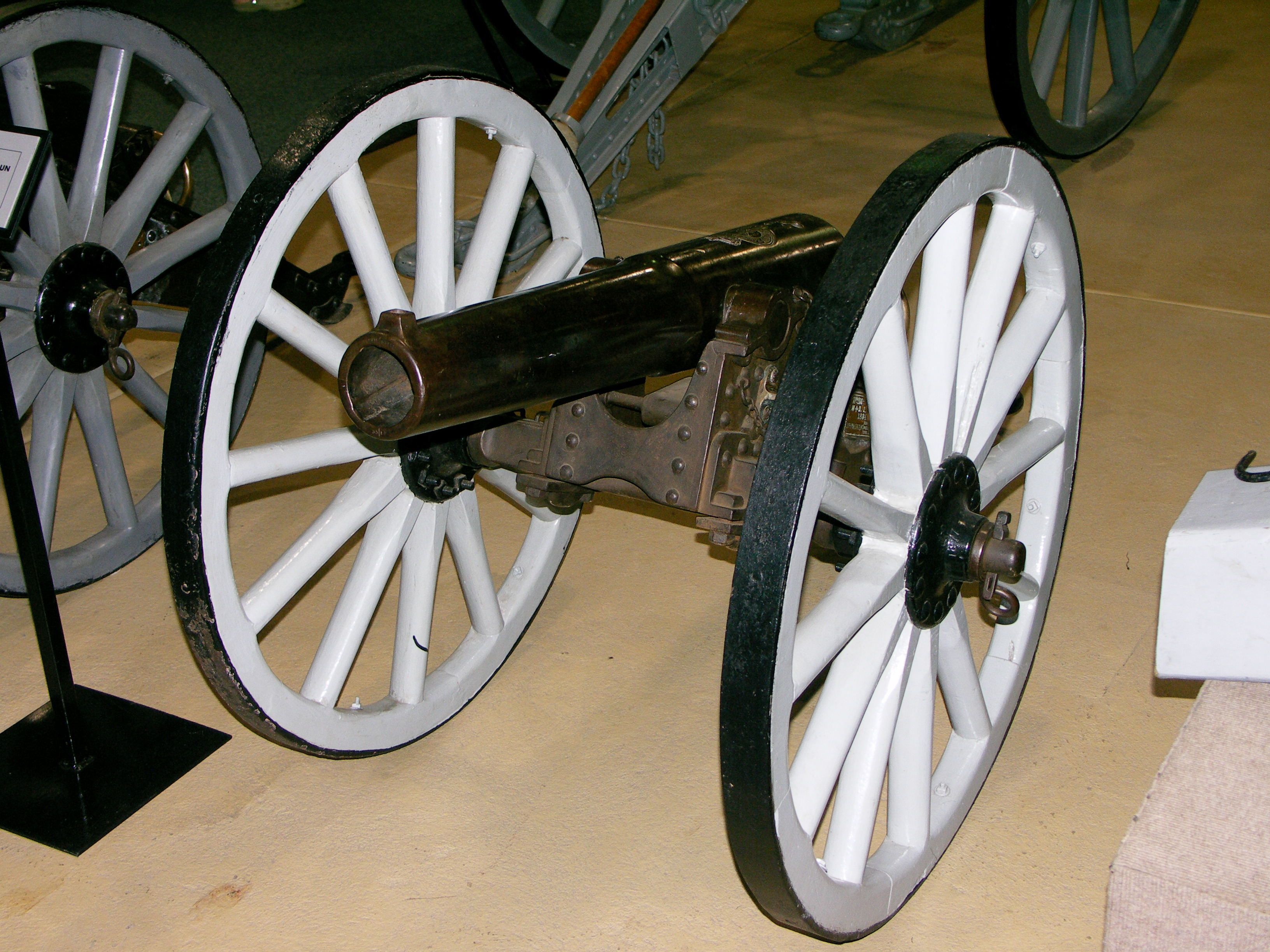 RML 7 pounder Mountain Gun at the South African National Museum of Military History